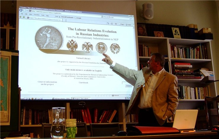 professor of Russian history Leonid Borodkin